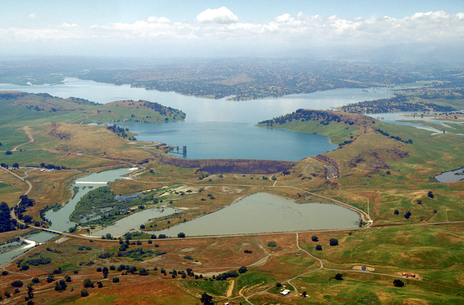 Aerial view of Black Butte Dam and Lake in Tehama County, California, USA. The dam was constructed in 1963 for flood control on Stony Creek. The dam is located approximately 9 miles (14.5 km) west of Orland, California. Coordinates: 39°49′1.17″N 122°20′14.13″W / 39.8169917°N 122.3372583°W